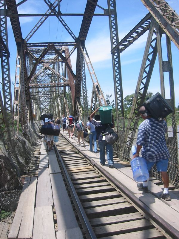 Crossing the Sixaola River, the natural border dividing Panama and Costa Rica.